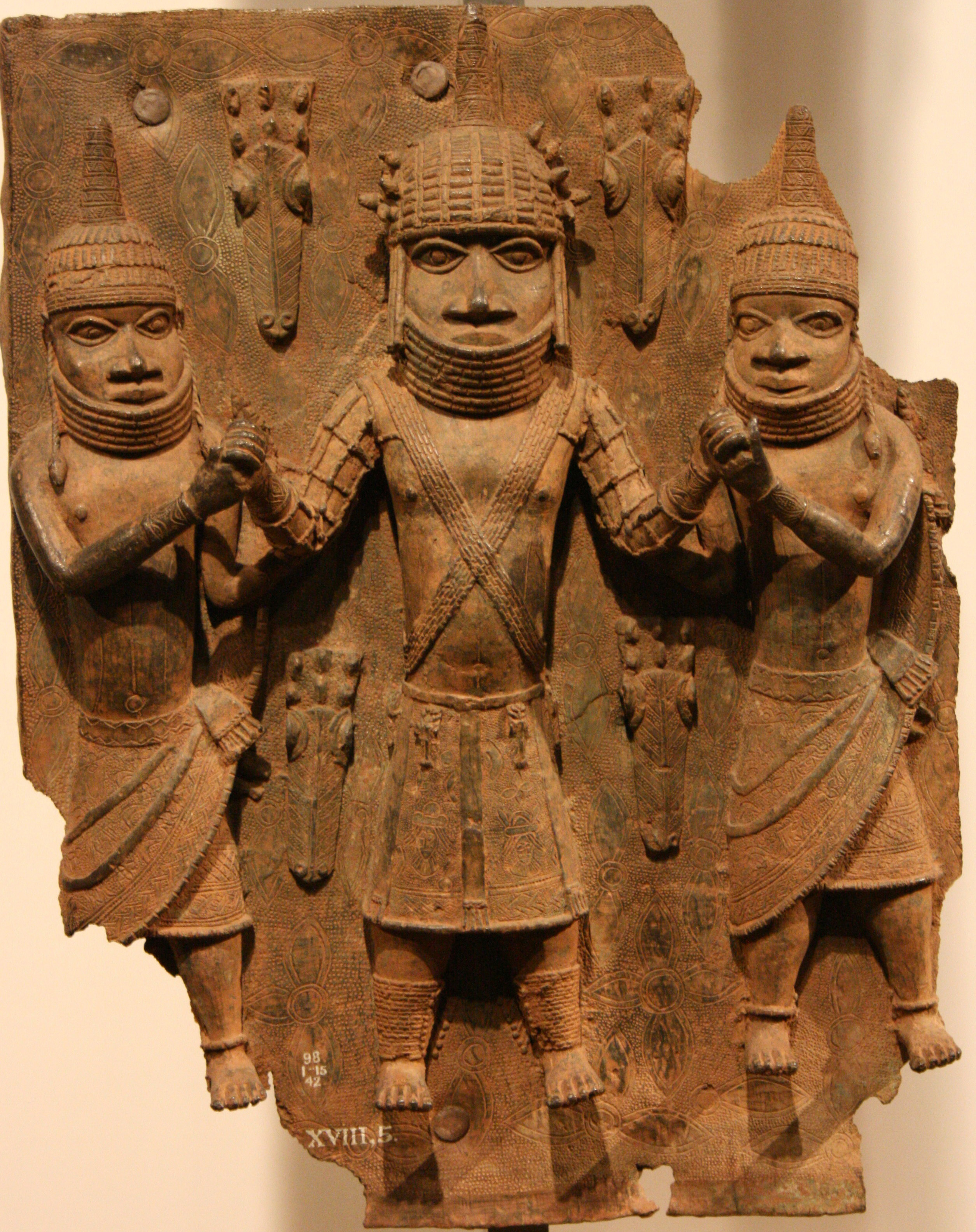 Brass plaque commonly known as "bronze". Benin kingdom (Nigeria). British Museum (London)